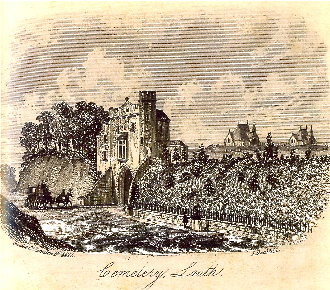 Cemetery, Louth, Lincolnshire. Designed by Pearson Bellamy, 1854-5.